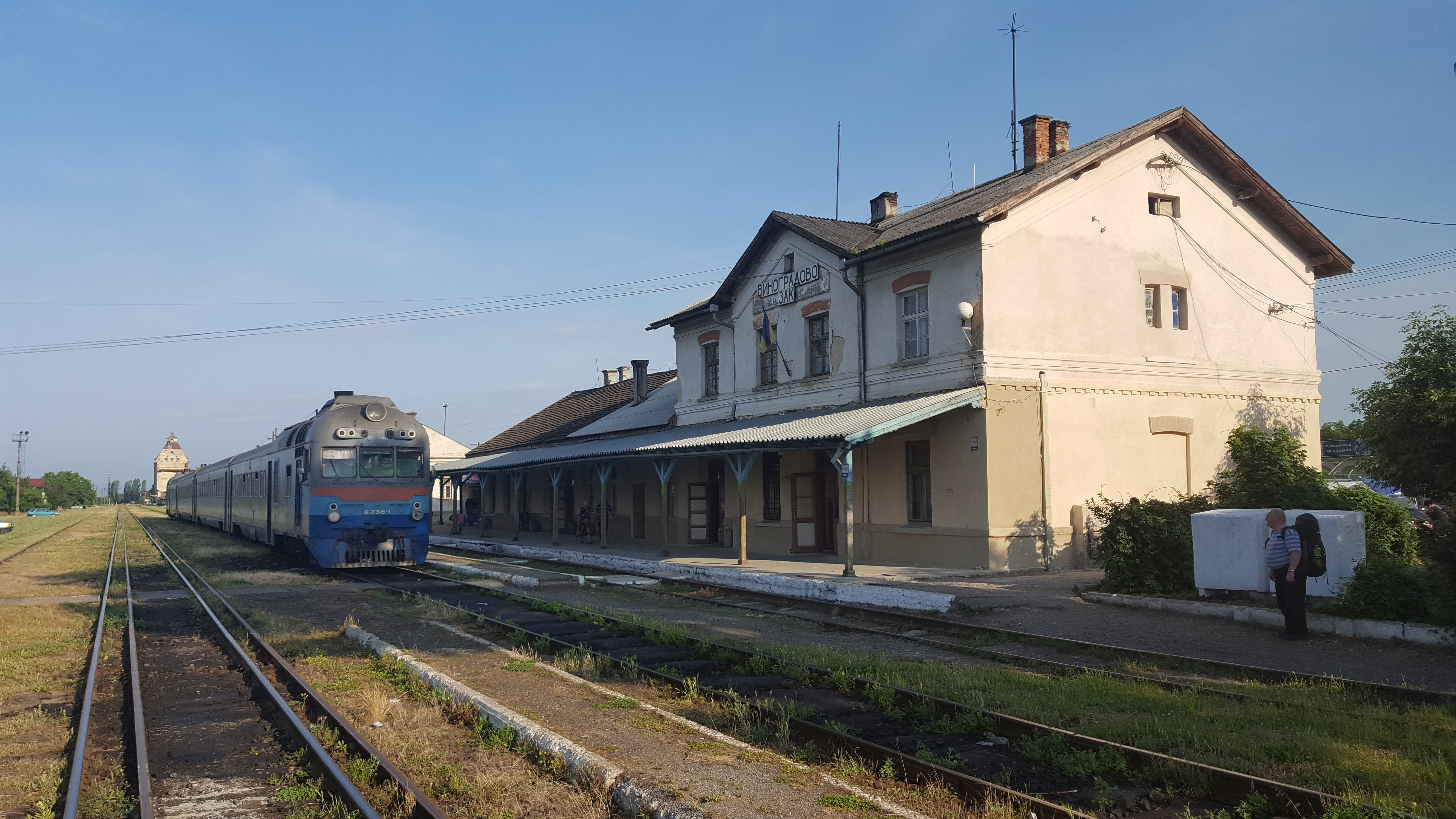 Train station in Vynohradiv (Виноградів-Закарпатський), Ukraine, with a diesel railcar Д 756-1.